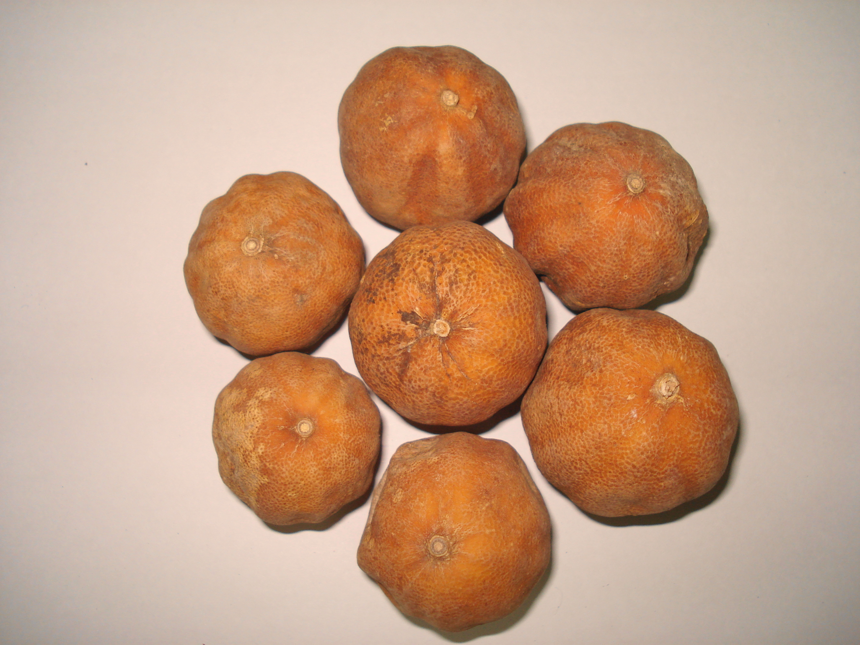 Dry Lemon yeloow is used in arabian cooking e.g Kabsa rice